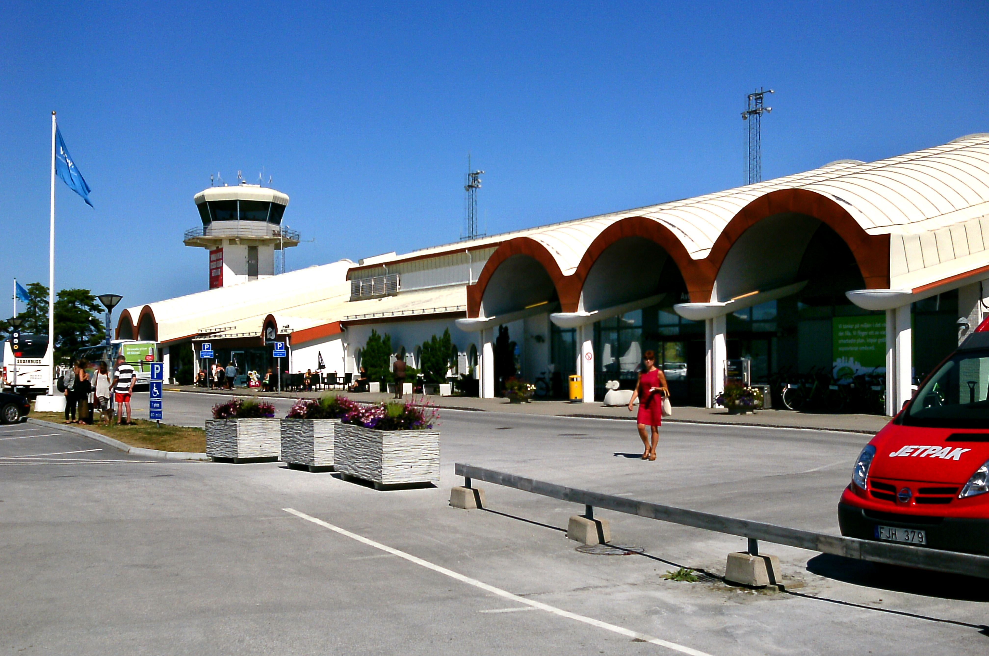 Visby Airport, the main entrance from the parking lot, Visby, Sweden